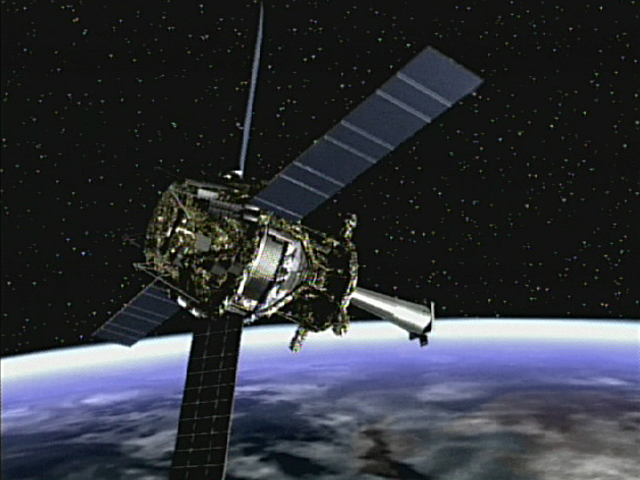 Artist concept of Gravity Probe B spacecraft in orbit around the Earth.